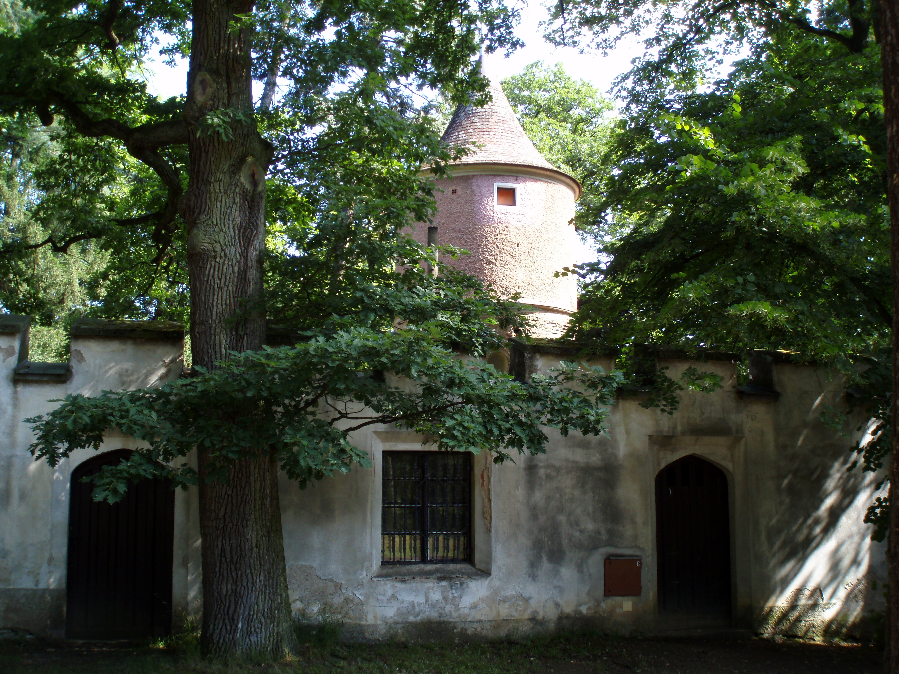 Castle Hradek u Nechanic (CZ)